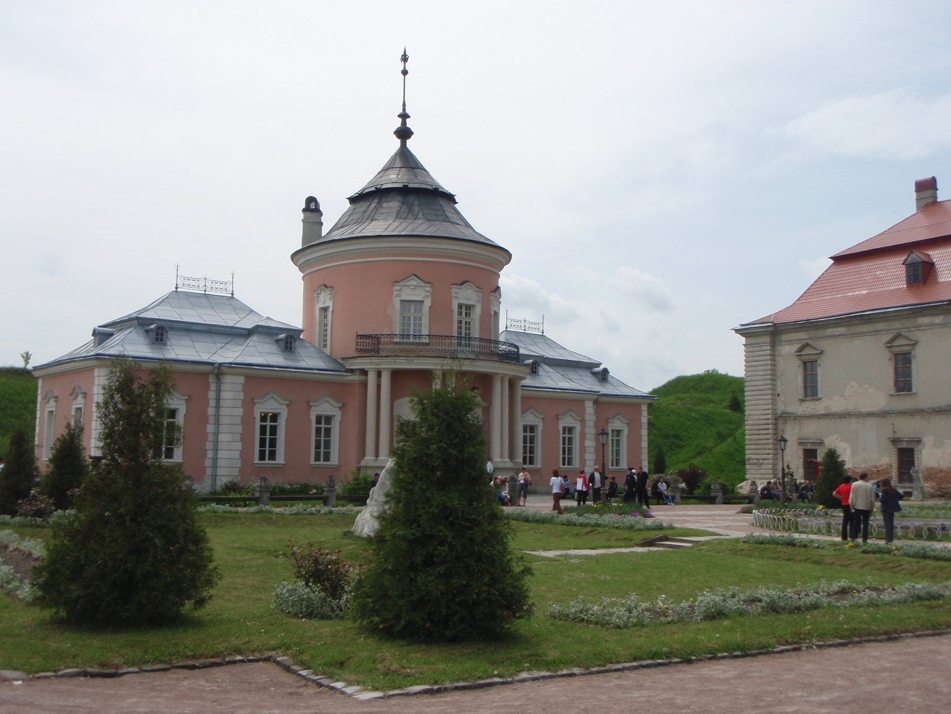 Chinese House of Zolochiv castle, Lviv Region, Ukraine.